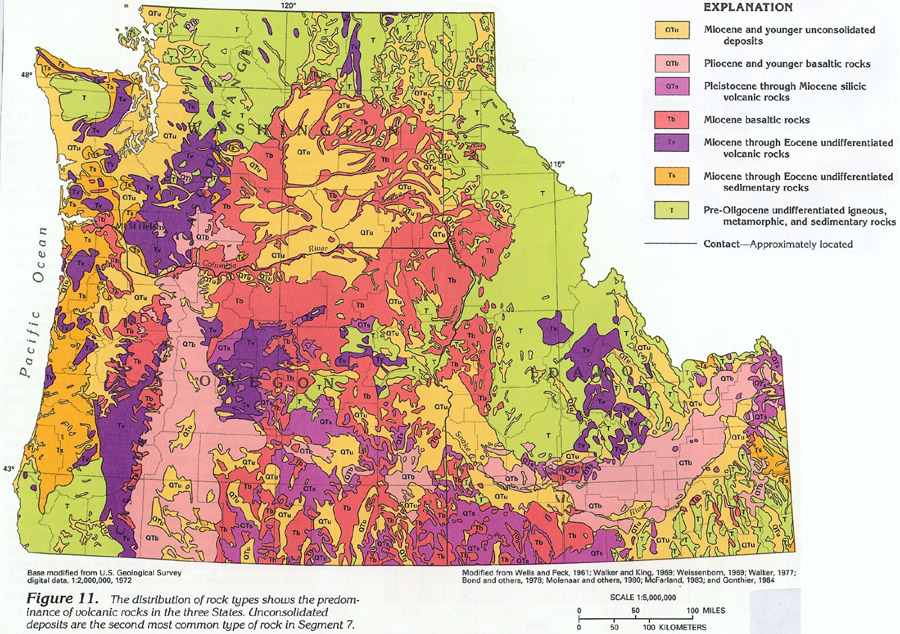 Geology of Washington, Oregon and Idaho on the northwest United States[1]